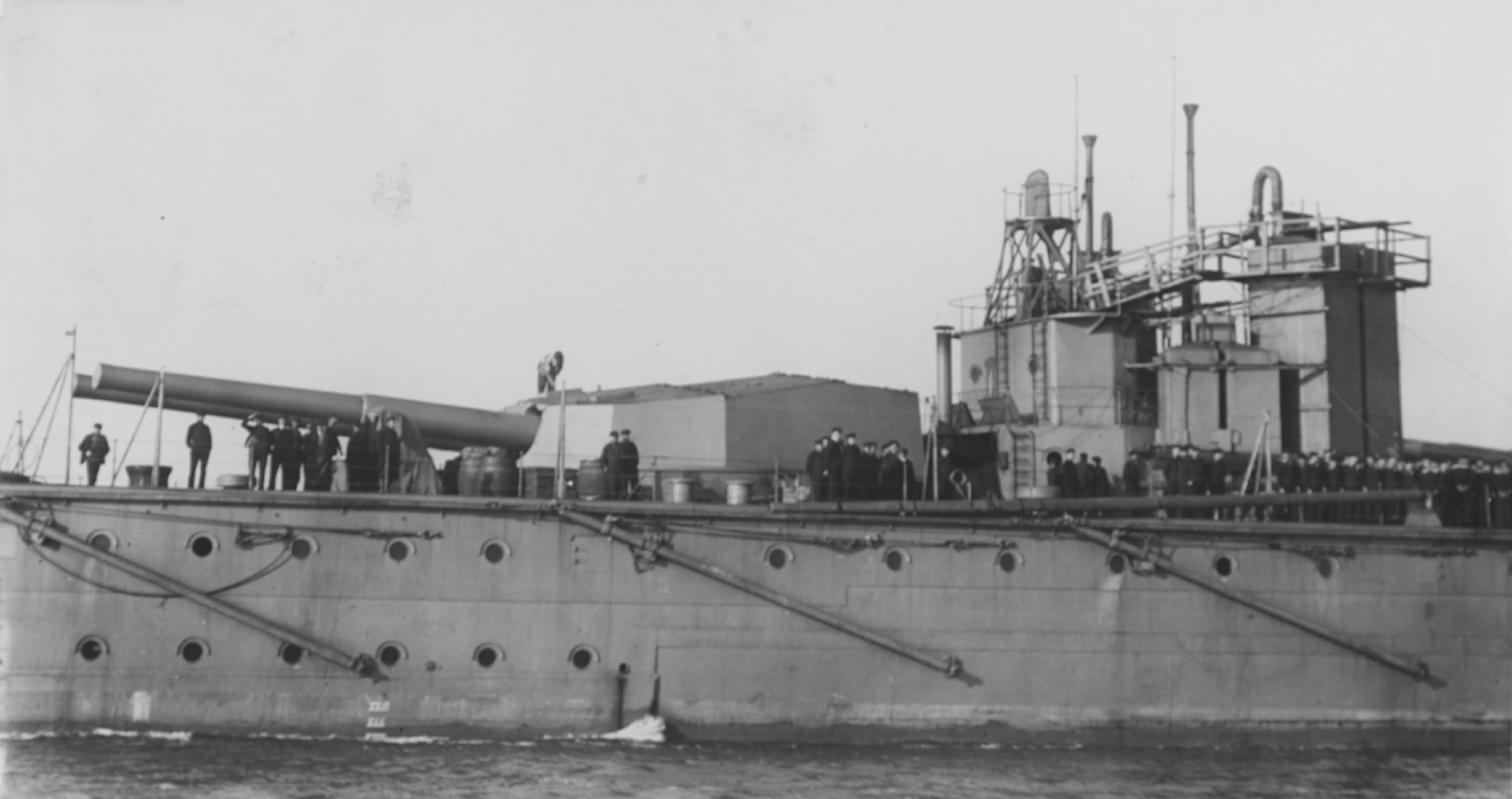 Photograph showing aft Mk XI 12 inch guns of British battleship HMS Vanguard.